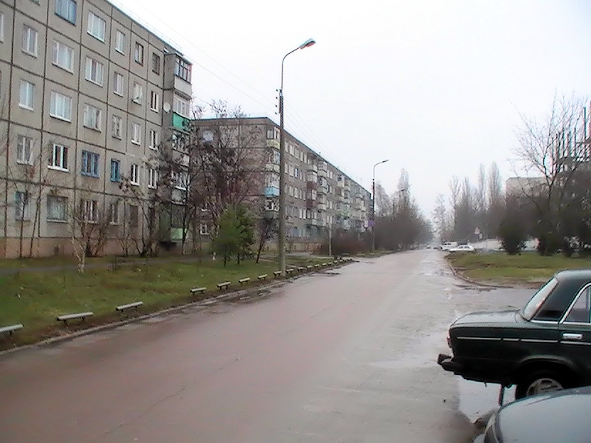 Lizyukov Brothers Street in Homel